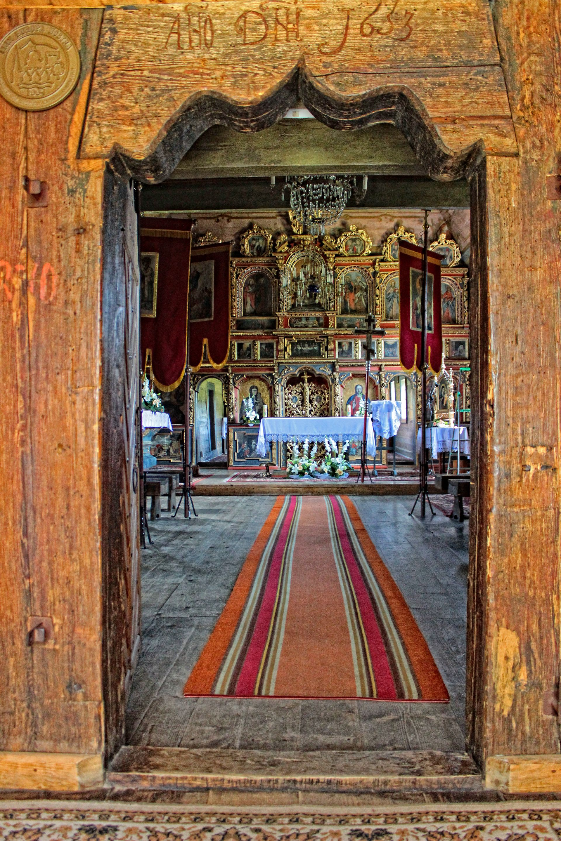 Orthodox church in Owczary interior